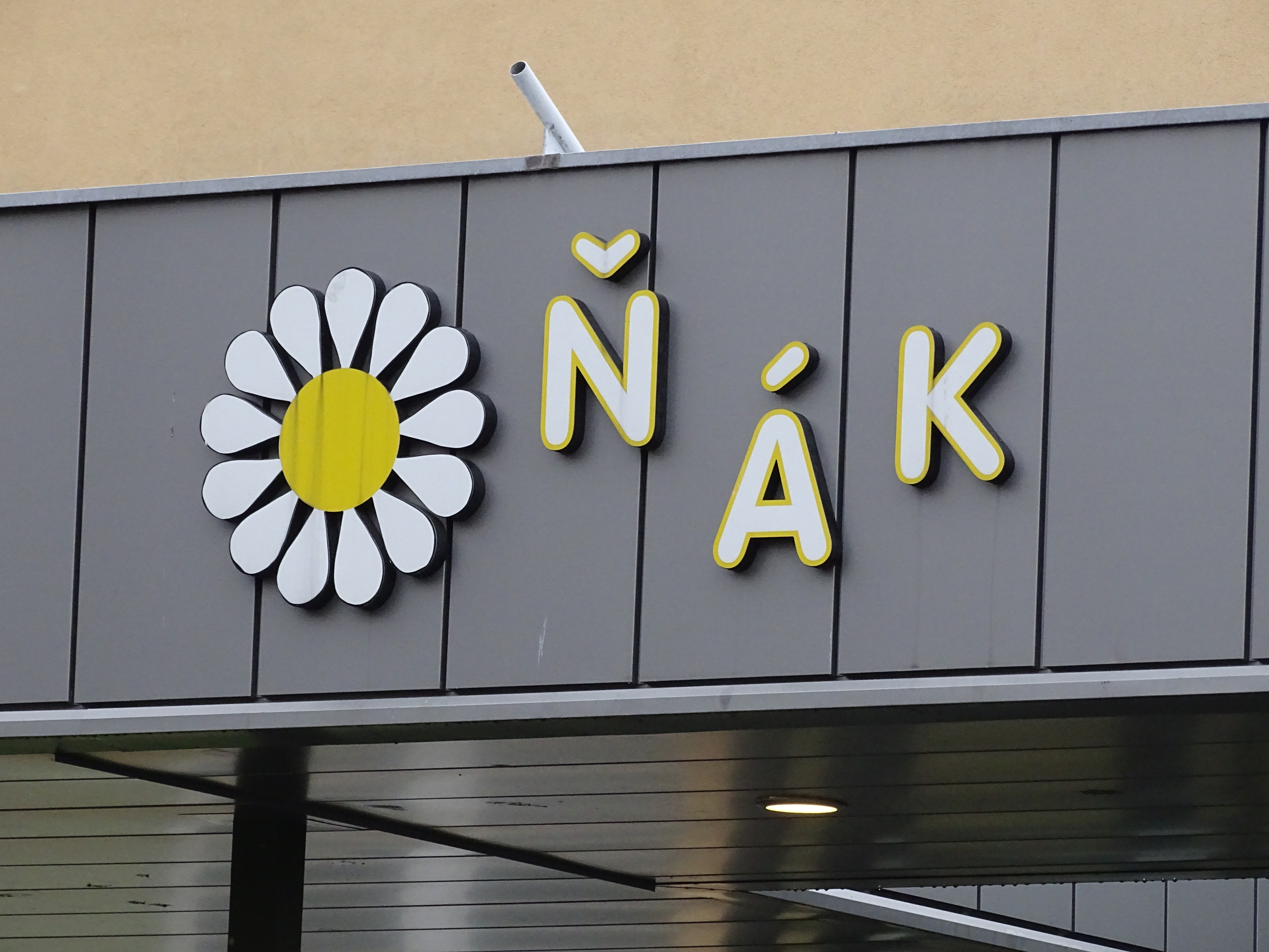 Prague-Chodov, Czechia. Květnového vítězství 1554/54.